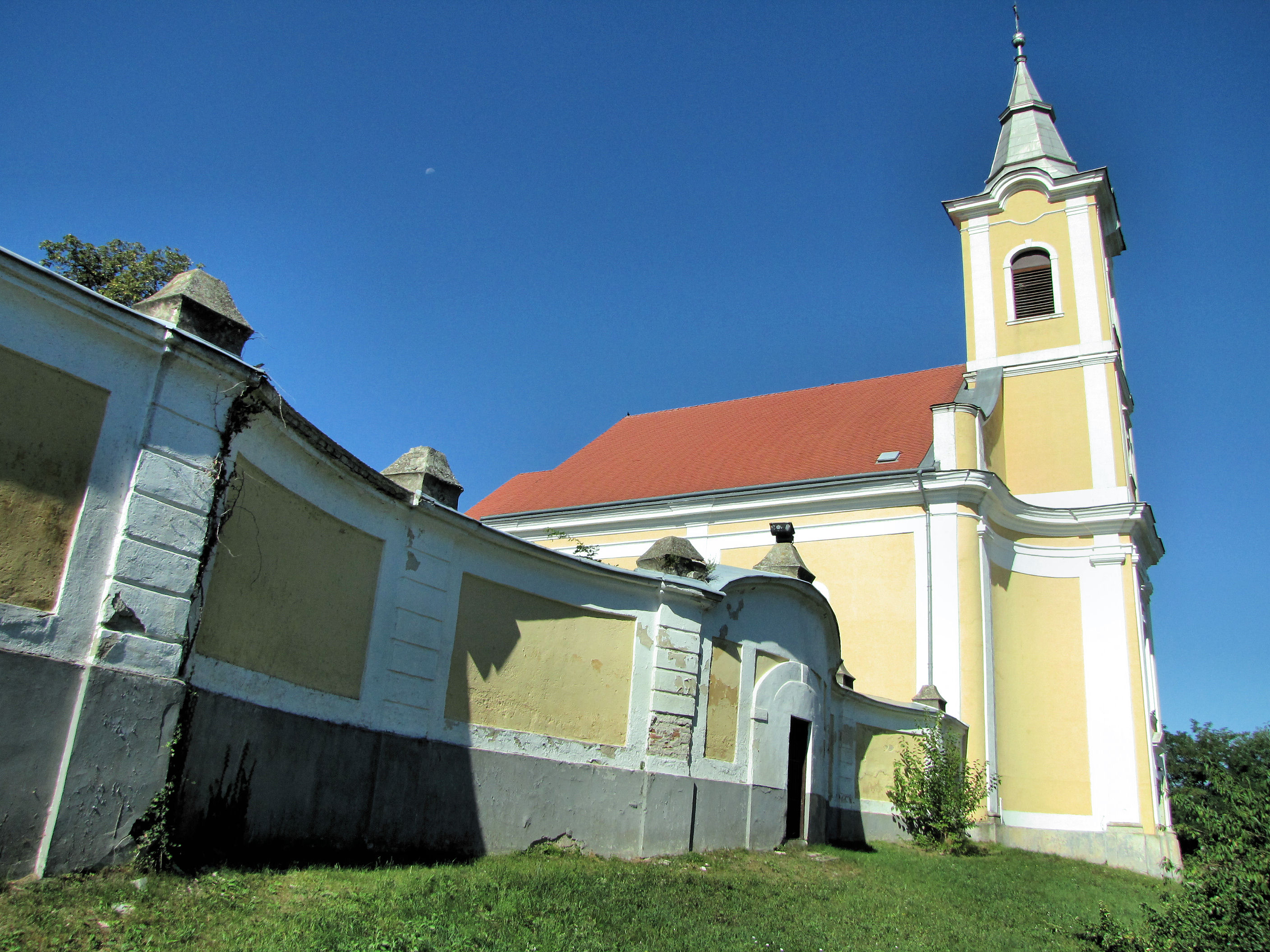 Előszállás, Hungary, Roman Catholic church.